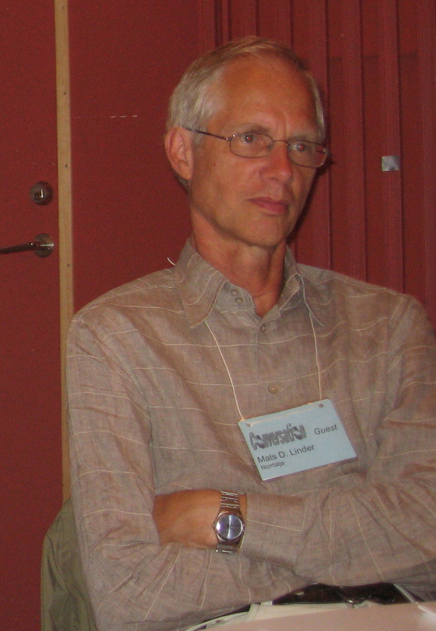 Writer Ahrvid Engholm and science fiction critic Mats Linder at Conversation 2006.